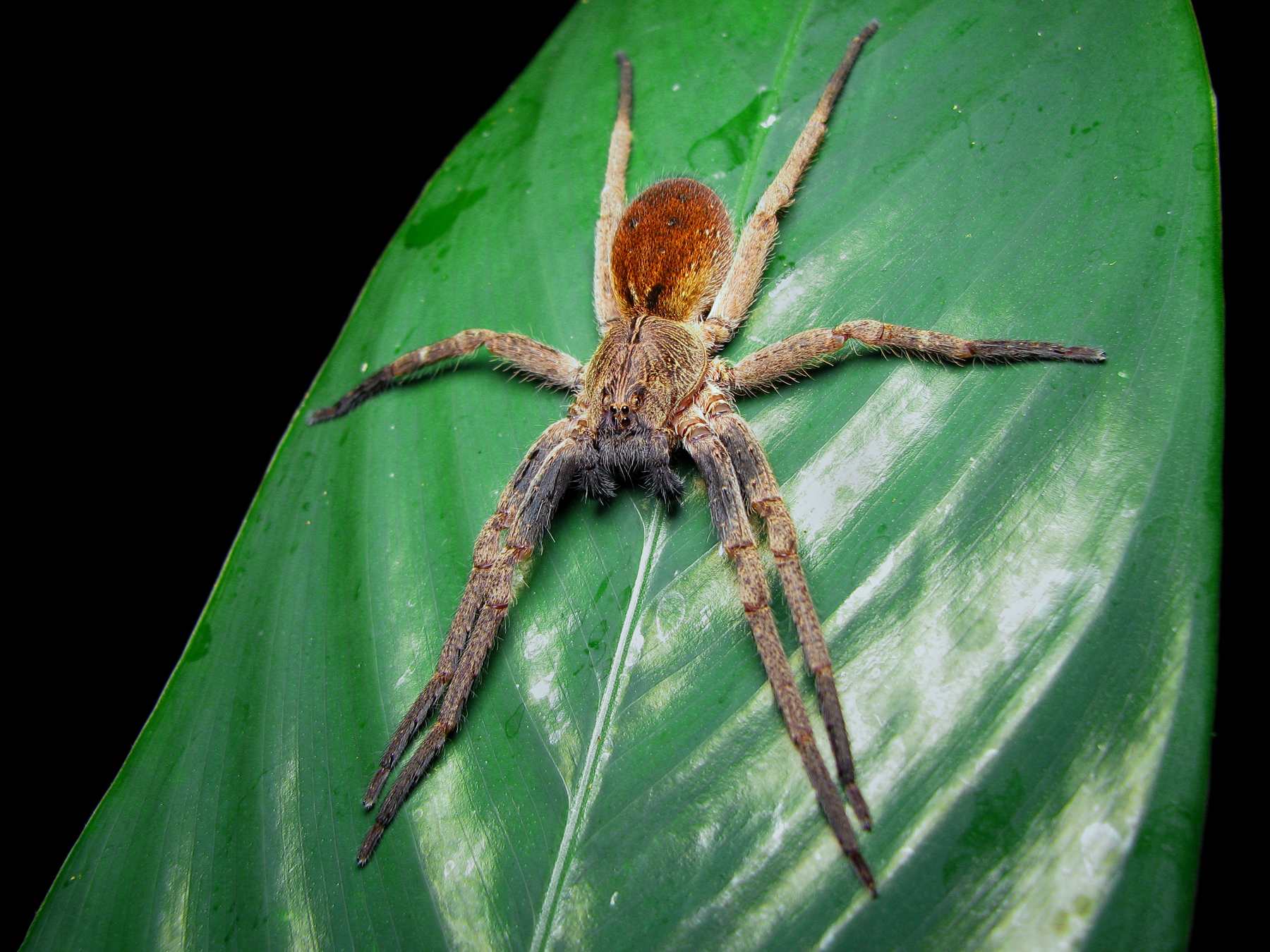 Dorsal view of a Ctenus wandering spider with legs spread on a Marantaceae leaf, from the atlantic forest (rainforest) in Carlos Botelho State Park, Sâo Miguel Arcanjo, São Paulo, Brazil.